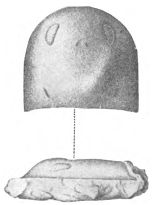 The Eurypterida of New York. Volume 1. New York State Museum Memoir 14, figure 38